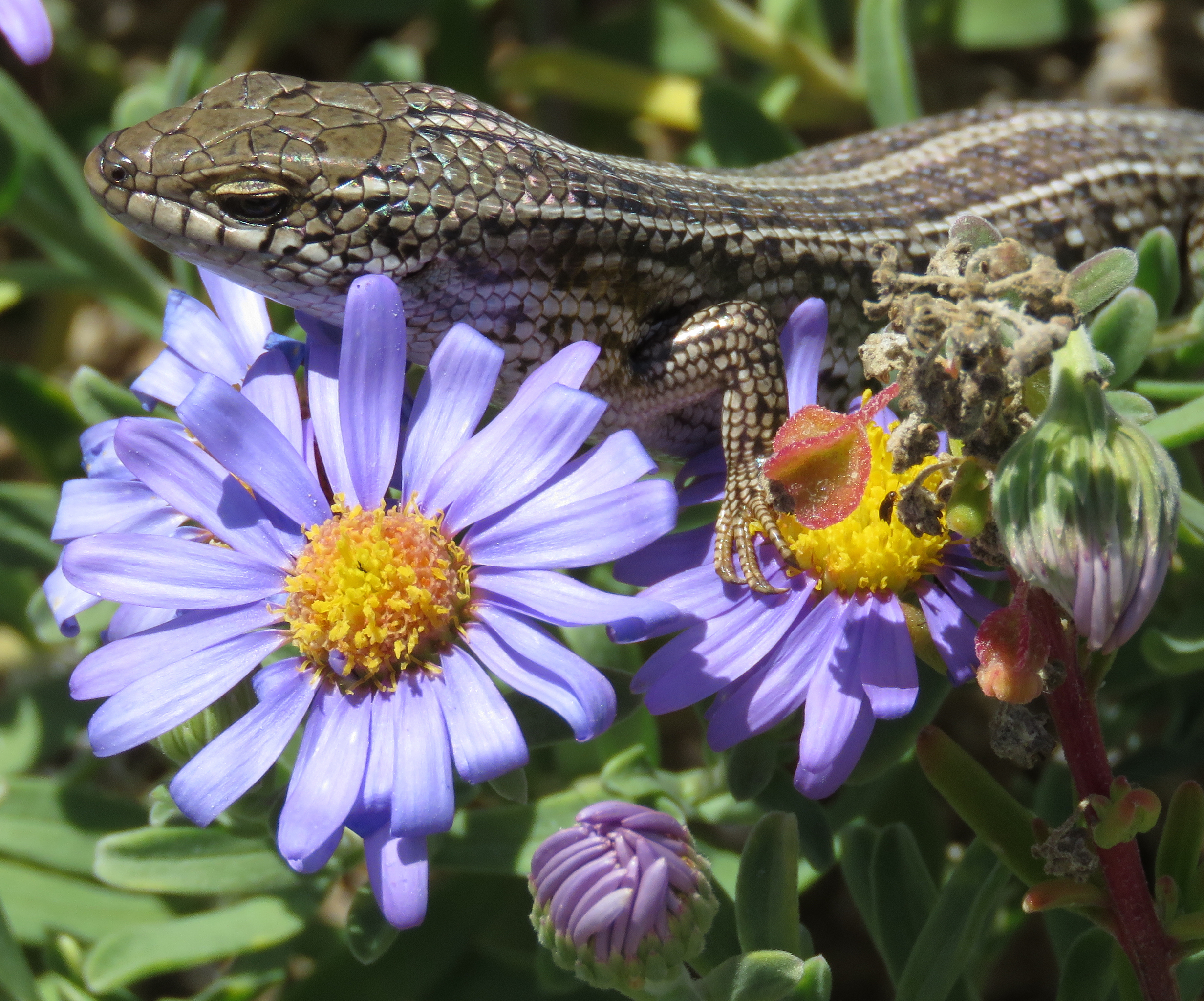 A Cape Skink (Trachylepis capensis) pictured on purple aster flowers. Taken near Slangkop lighthouse, South Africa.